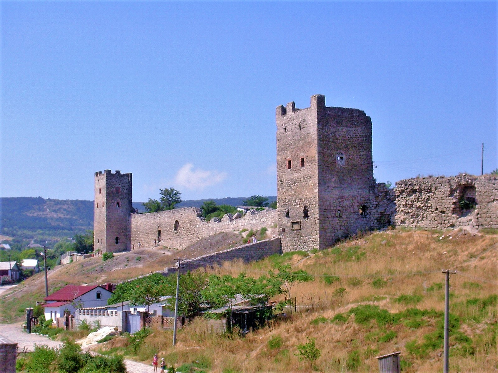 The Genoese castle in Theodosia, Crimea, c. XIV/XV